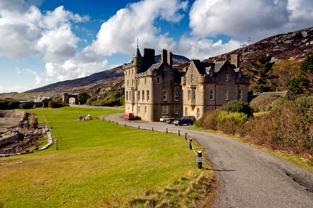 Amhuinsuidhe Castle near to Amhainn Suidhe, Na h-Eileanan an Iar, Great Britain. The B887 road runs right through the grounds in front of the house and out through the gateway in the distance. The house was built in 1865 for the 7th Earl of Dunmore, the then owner of the Isle of Harris.